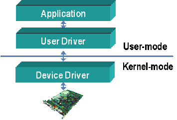 Device driver architecture